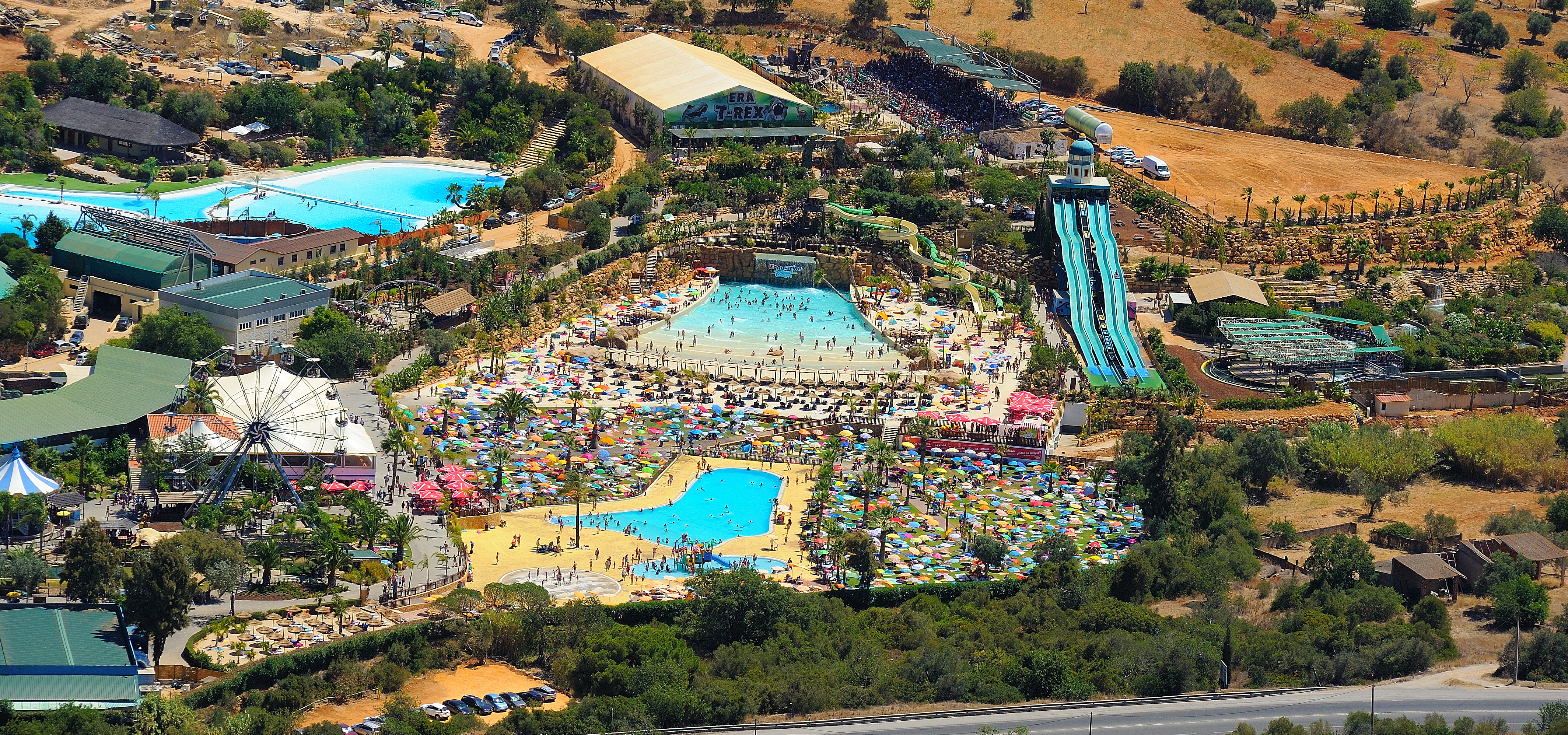 Panorâmica Zoomarine